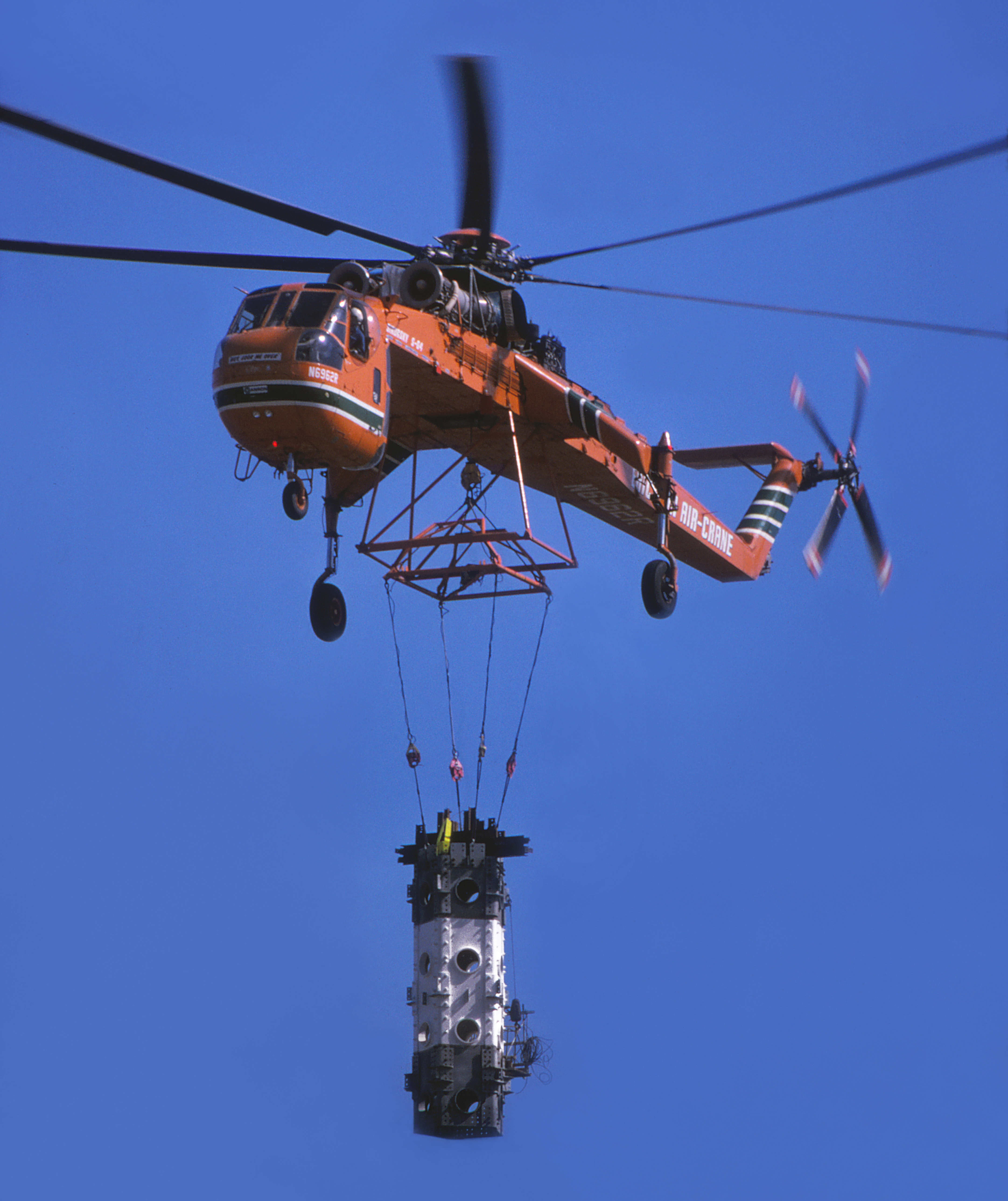 Sikorsky S-64 Skycrane helicopter "Olga" lifting a segment of upper section of Toronto's CN Tower during construction, March 1975. (Digitized from original Kodachrome.)